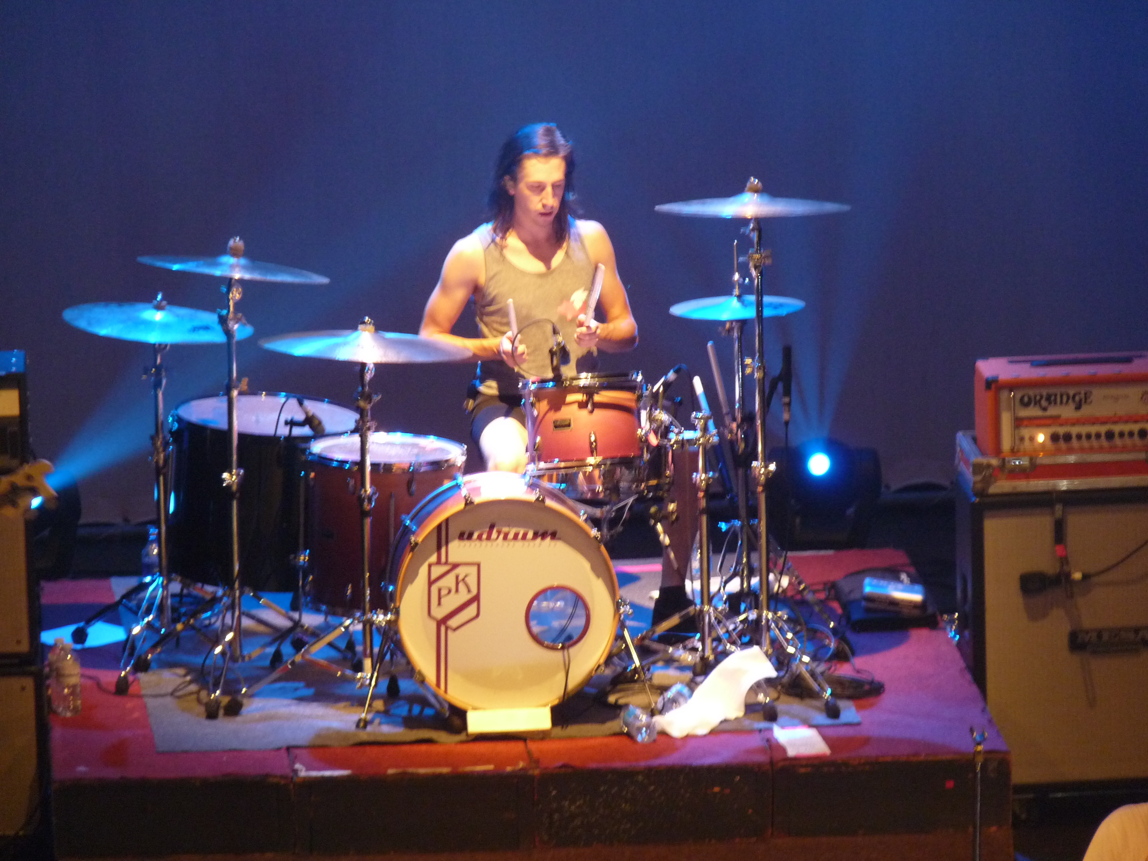 Silverstein's drummer, Paul Koehler, applies the sticks in Glace Bay, Nova Scotia